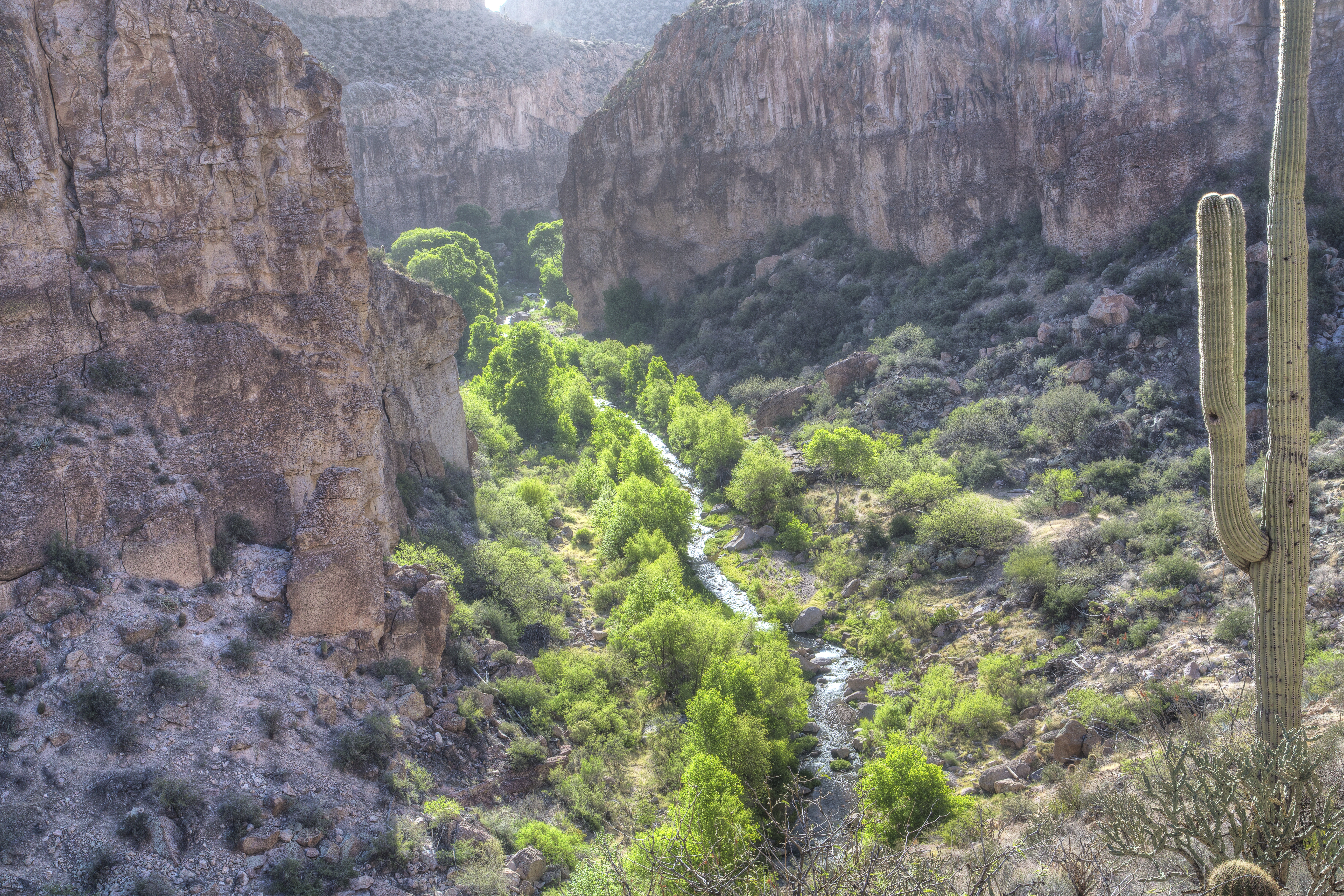 The 19,410-acre Aravaipa Canyon Wilderness is 120 miles southeast of Phoenix, Arizona in Graham and Pinal counties. The wilderness includes the 11-mile long Aravaipa Canyon, as well as, the surrounding tablelands and nine side canyons. Within the colorful 1,000-foot canyon walls, outstanding scenery, wildlife, and rich history are all protected. Seven species of native desert fish, desert bighorn sheep, and over 200 species of birds live among shady cottonwoods along the perennial waters of Aravaipa Creek. A permit is required to enter Aravaipa Canyon Wilderness. Use is limited to 50 people per day; this provides solitude for the visitor and reduces impacts to the environment. Plan your visit: Photo: Bob Wick, BLM